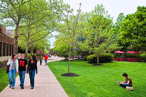 photo of rutgers camden campus walking path